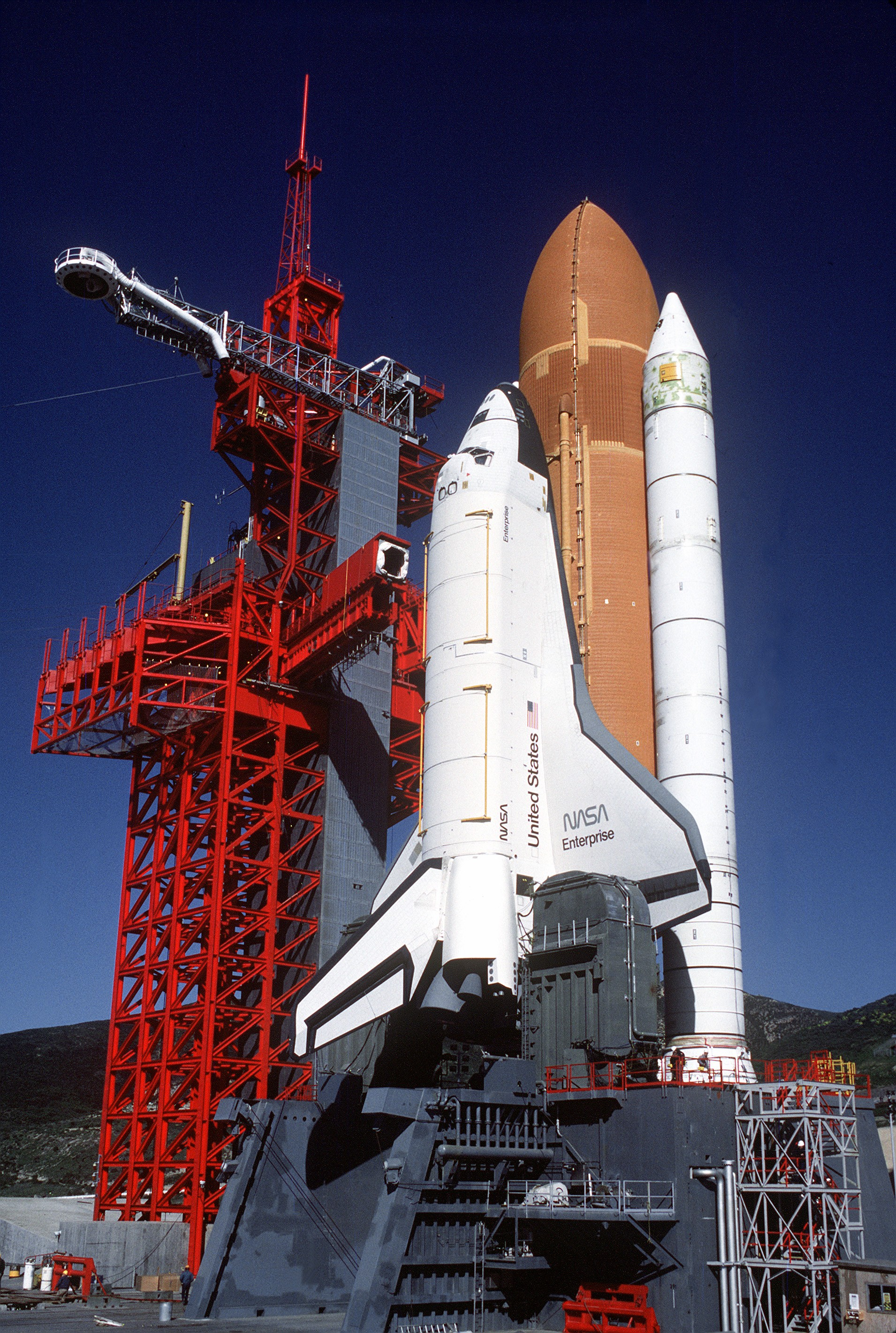 Low angle view of gantry and Space Shuttle Enterprise in launch position on the Vandenberg Air Force Base's Space Launch Complex 6 (commonly known as "SLICK 6"), in California, during the ready-to-launch checks to verify launch procedures.